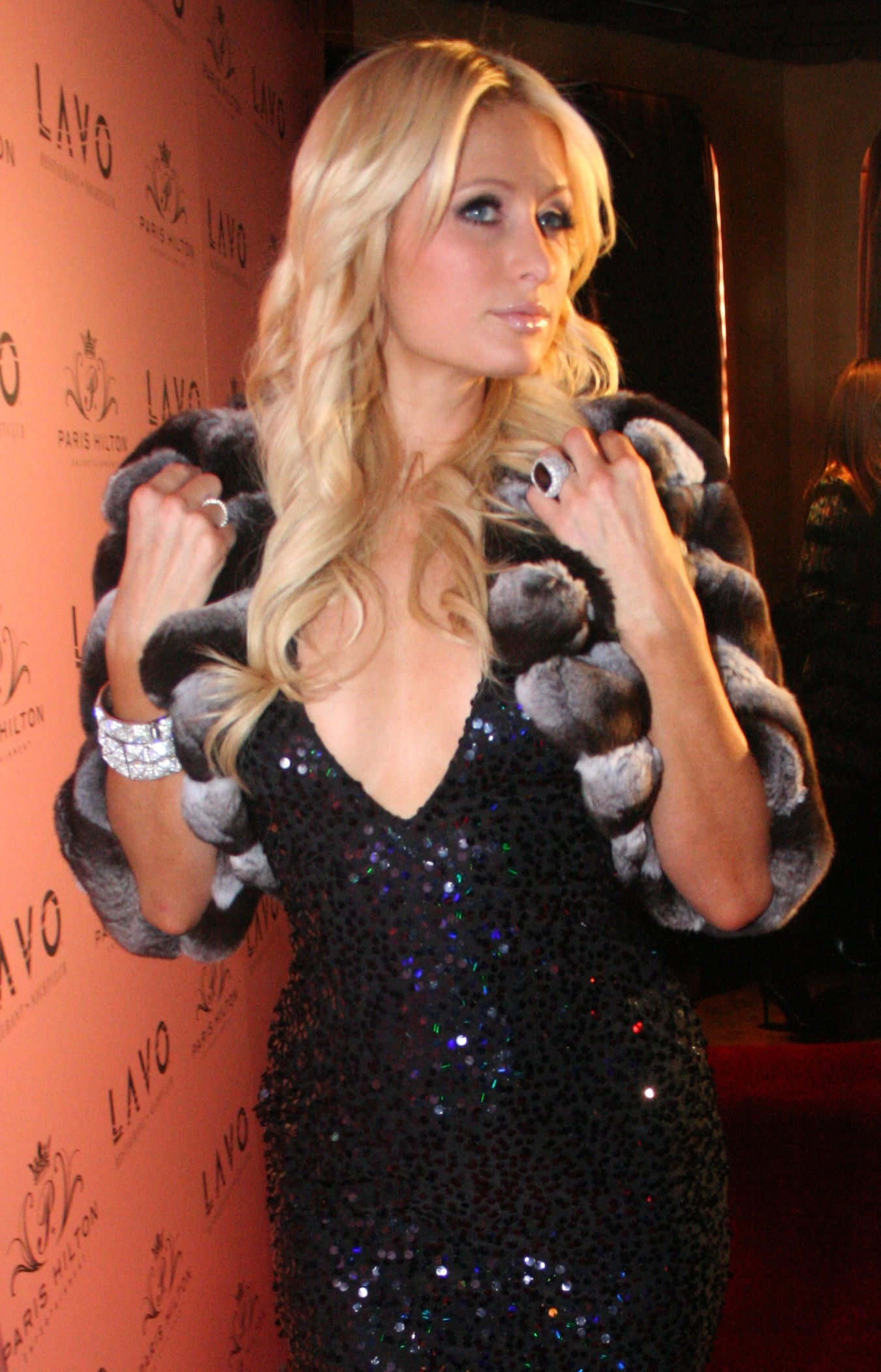 Paris Hilton at her 30th birthday party in February 2011.